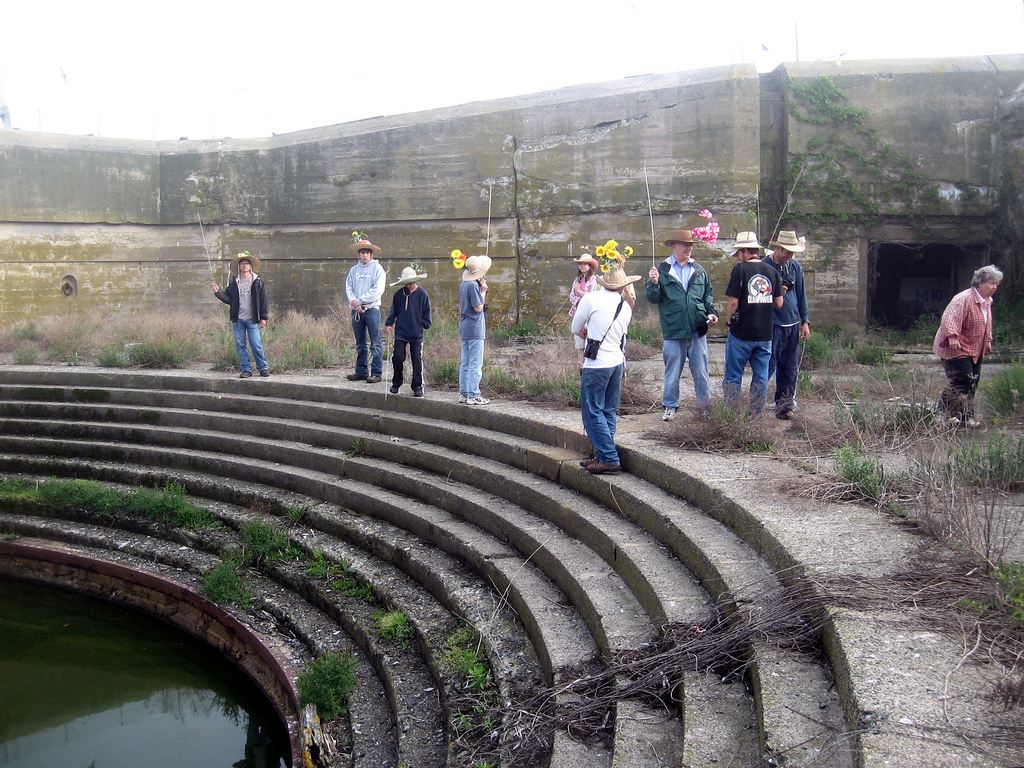 This is probably a military history buff's wet dream, to get to crawl all over the ruins of an old army fort like this. I mean, I think it's pretty cool myself---I like any kinds of ruins really---the difference, I guess, is that I can't tell you much about what I'm looking at.